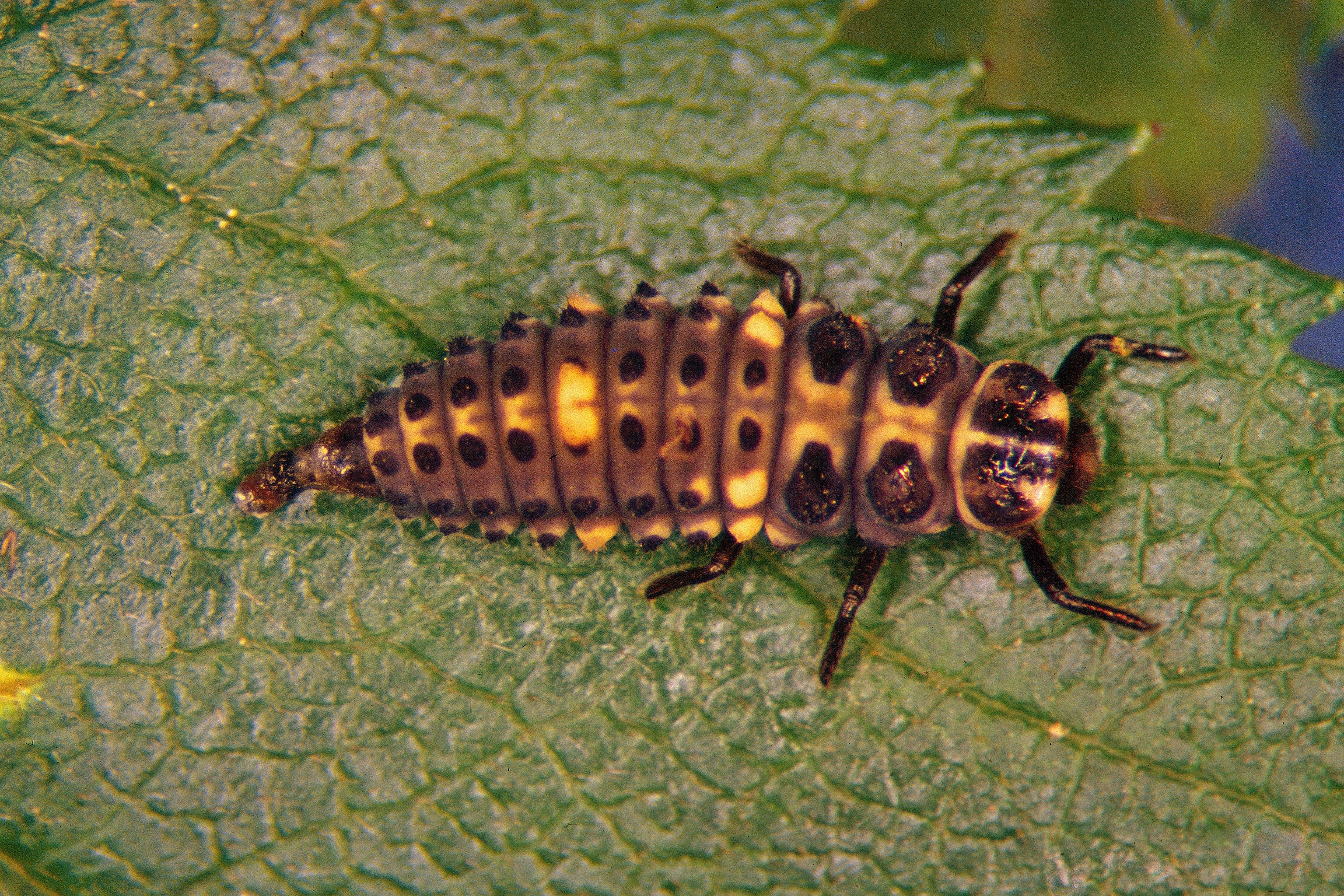 Adalia bipunctata Linnaeus, 1758:364 Common Name: twospotted lady beetle Photographer: Whitney Cranshaw, Colorado State University, United States Descriptor: Larva(e) Image taken in: United States